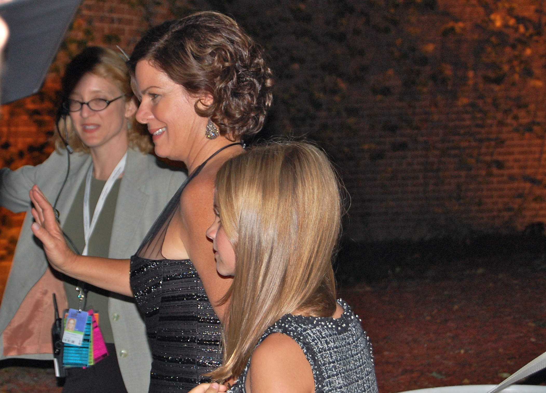 Whip It premiere - Ryerson Theatre - September 13, 2009